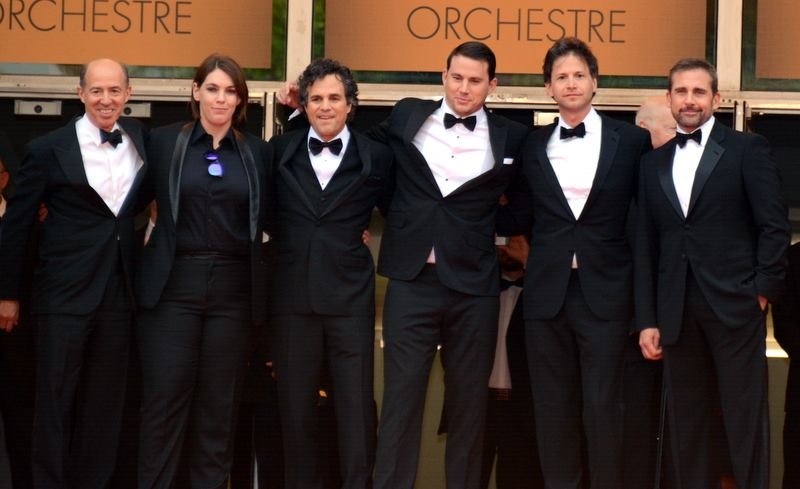 Cast and crew of "Foxcatcher" at the Cannes films festival